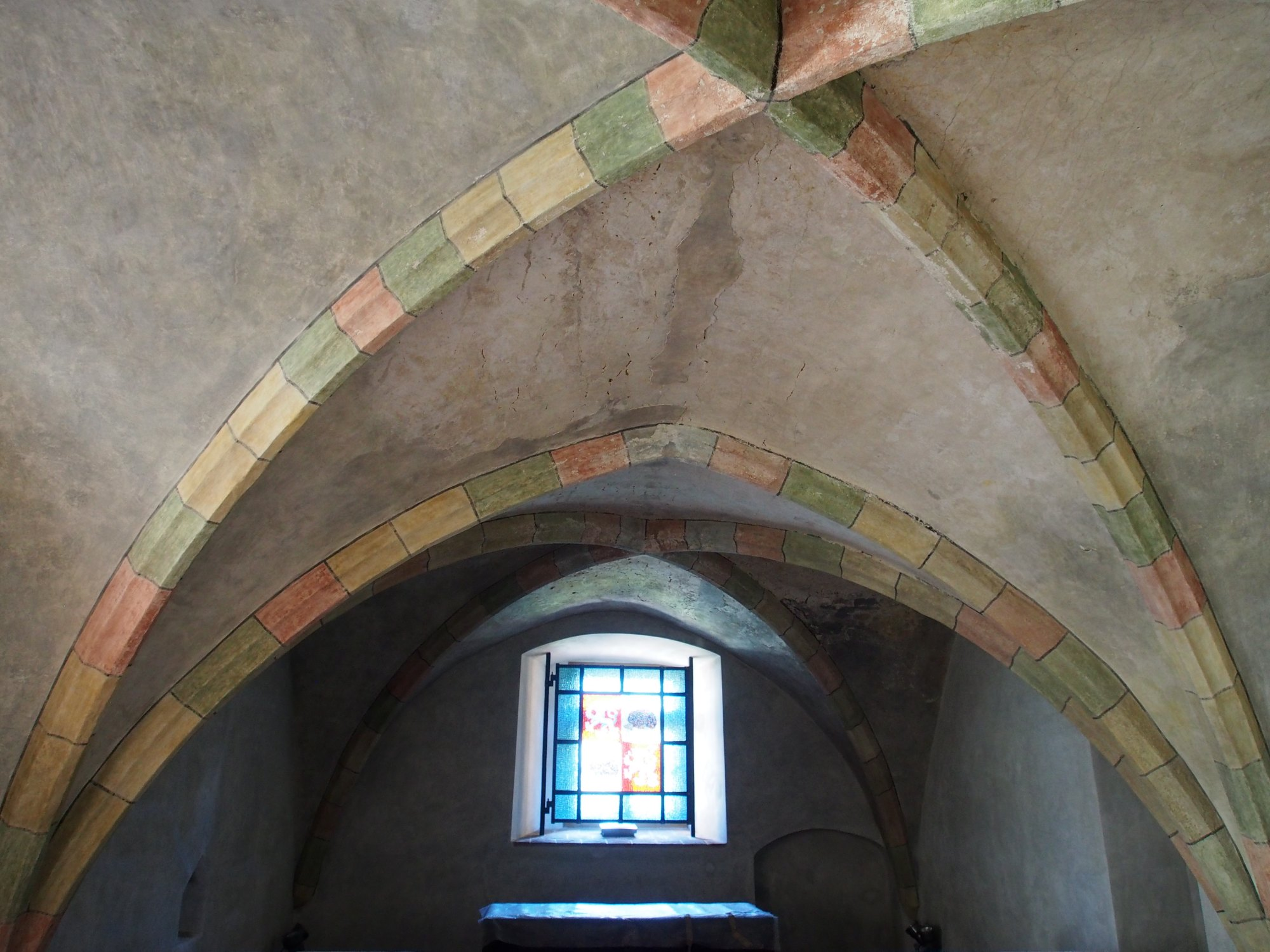 Small hall